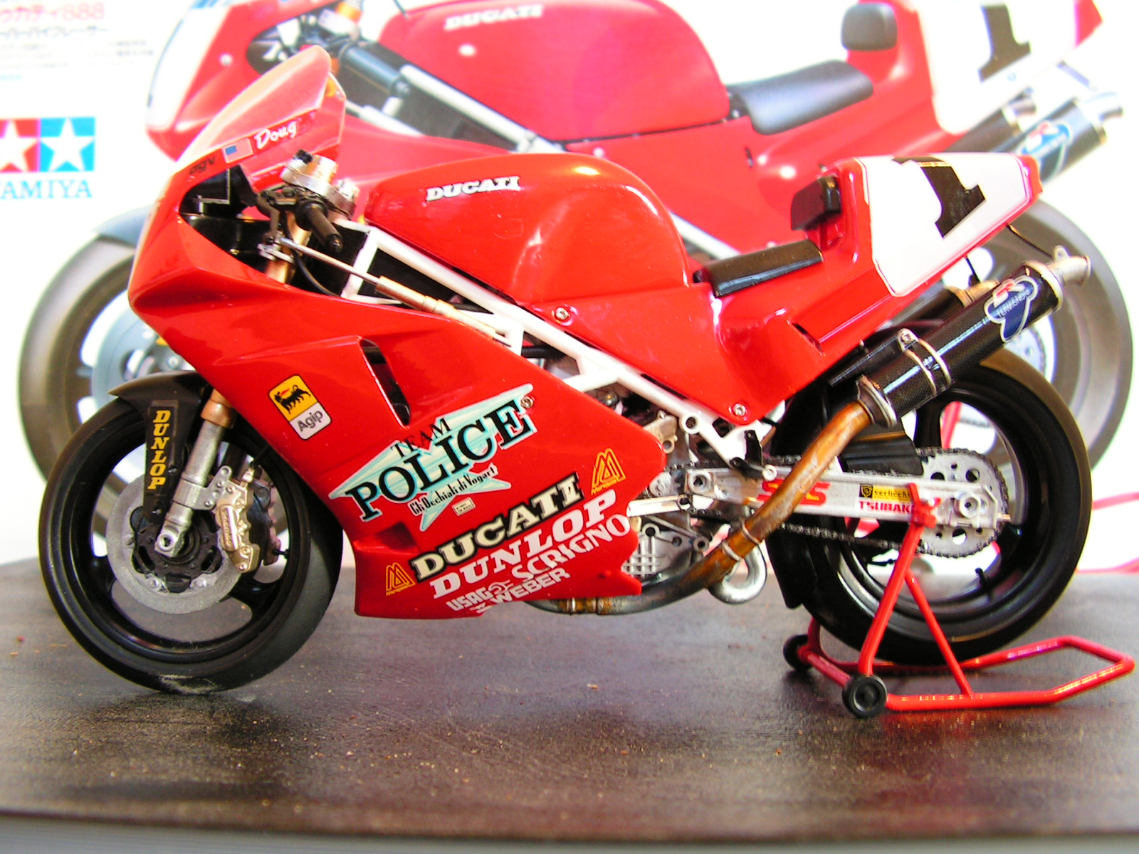 maquette tamiya 1/12 Ducati 888 superbike